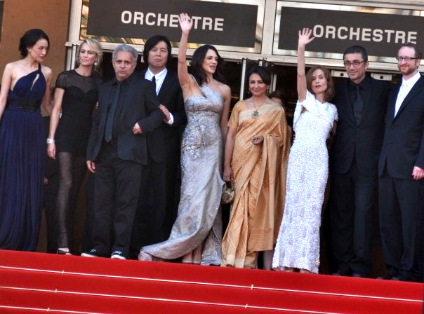 The jury of the feature films selection at the 2009 Cannes Film festival. Left to right : Shu Qi, Robin Wright, Hanif Kureishi, Lee Chang-dong, Asia Argento, Sharmila Tagore, Isabelle Huppert, Nuri Bilge Ceylan, James Gray